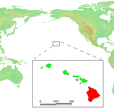 Locator map of the Big island of Hawaiʻi — of the Hawaiian Islands, state of Hawaii.